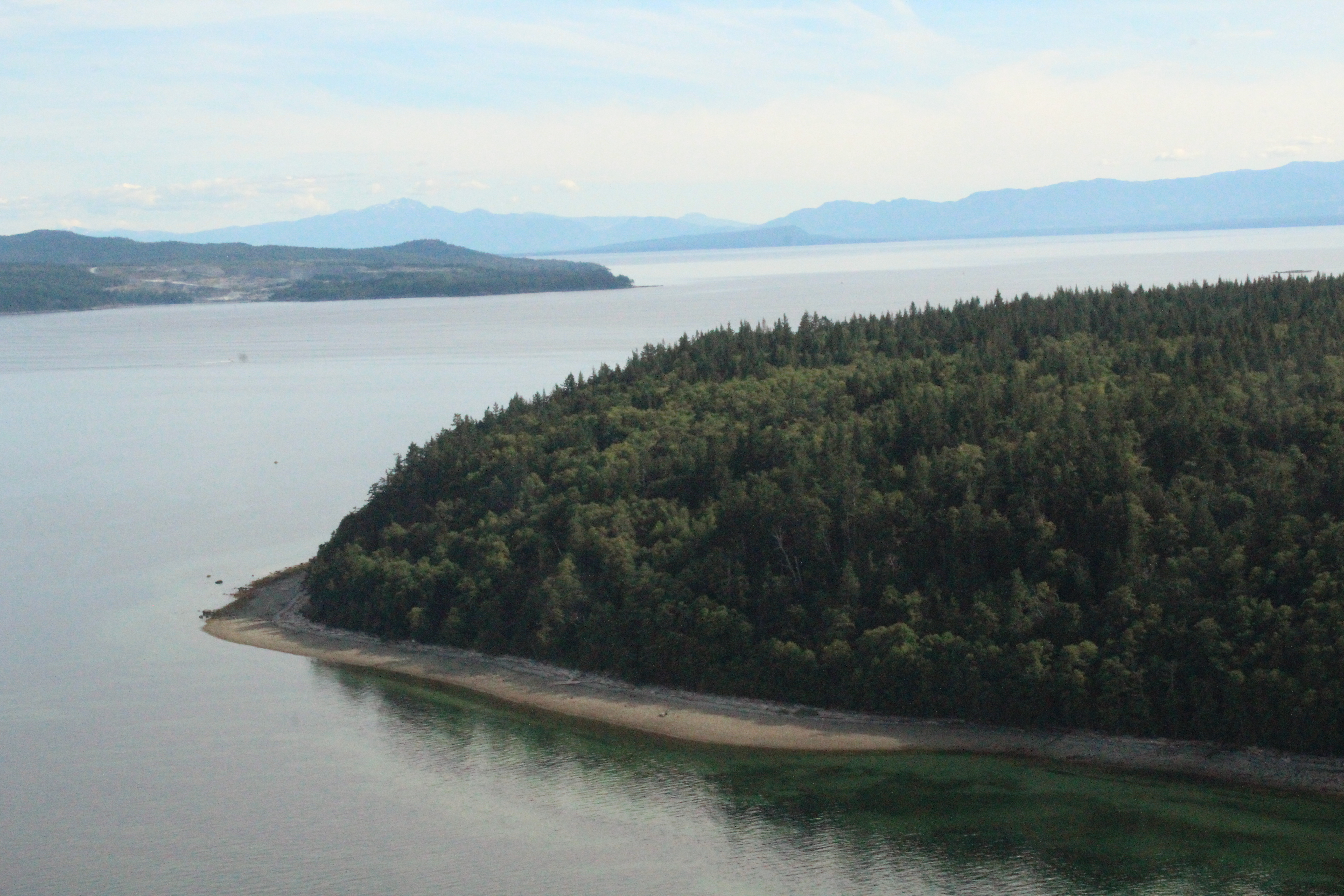 Harwood Island from a seaplane